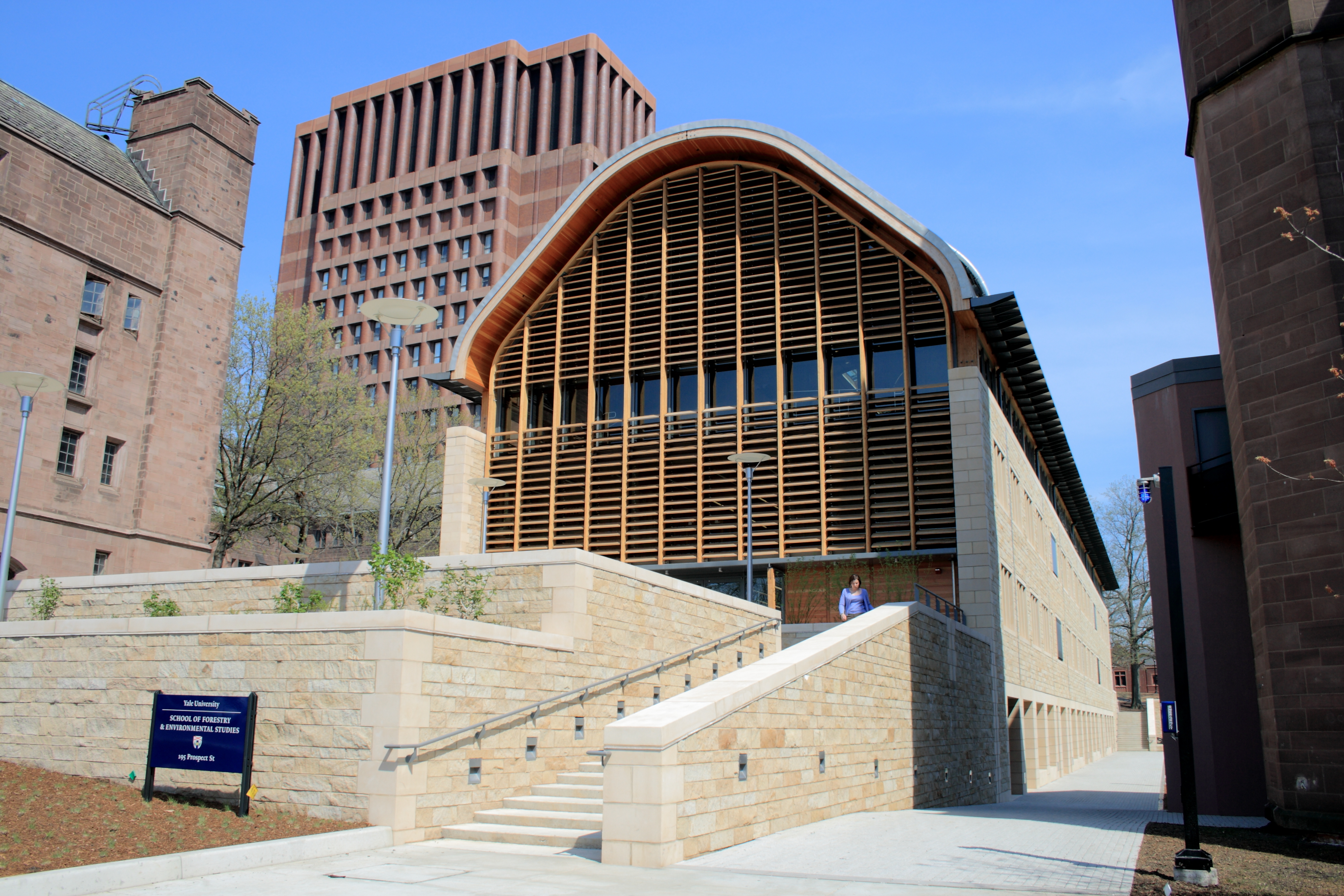 Kroon Hall, a green building that is part of the Yale School of Forestry & Environmental Studies